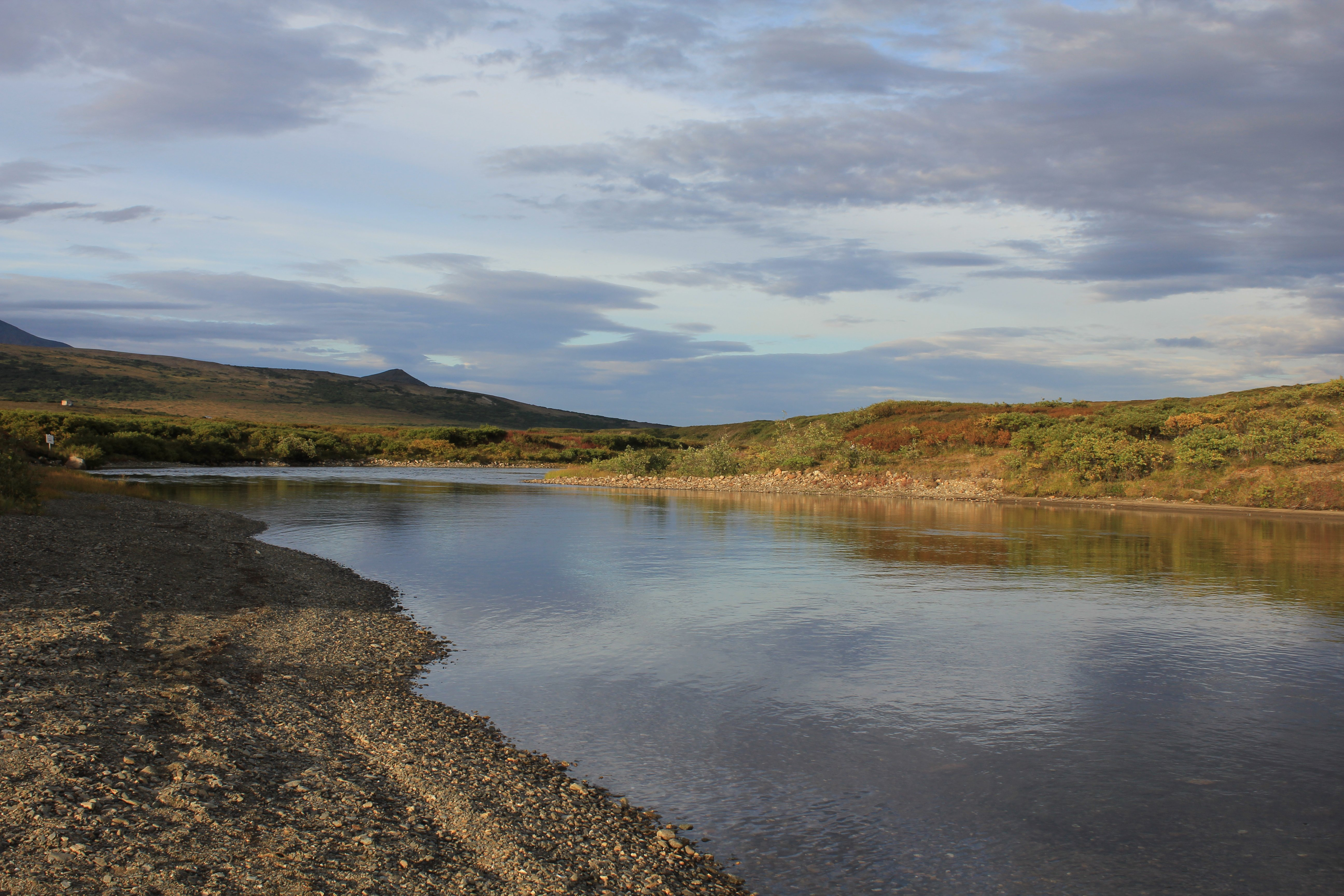 The Kougarok River on the Seward Peninsula. Image ID: line5197, NOAA's America's Coastlines Collection Location: Alaska, Seward Peninsula Photo Date: 2010 August